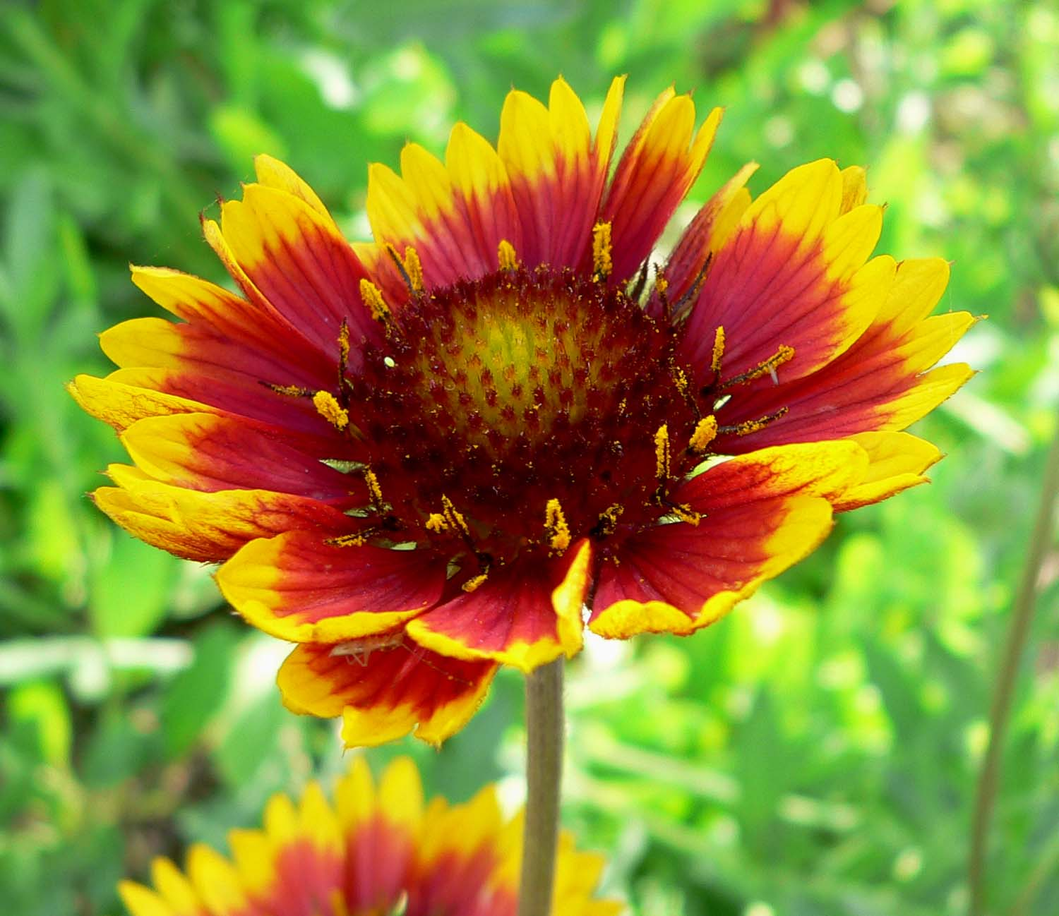 Photo of Gaillardia x grandiflora (hybrid blanketflower) at the Springs Preserve garden in Las Vegas, Nevada